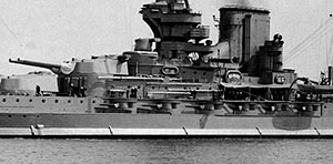 Photograph showing port foreward secondary gun casemates on British battleship HMS Valiant.